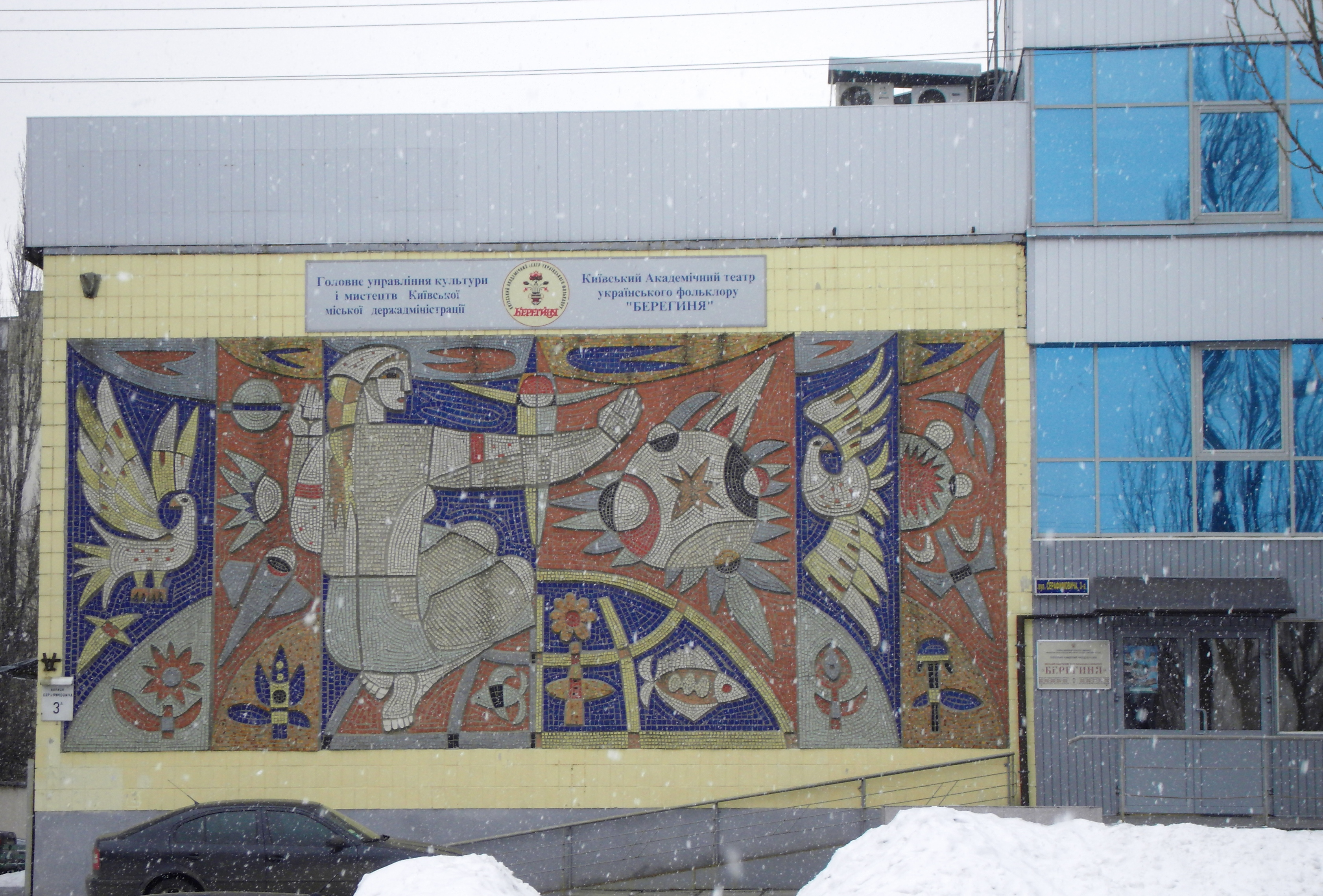 Beregynya theatre, Kyiv